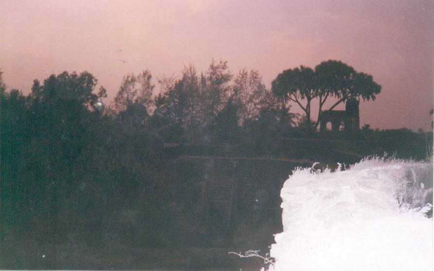 Shirgavcha fort